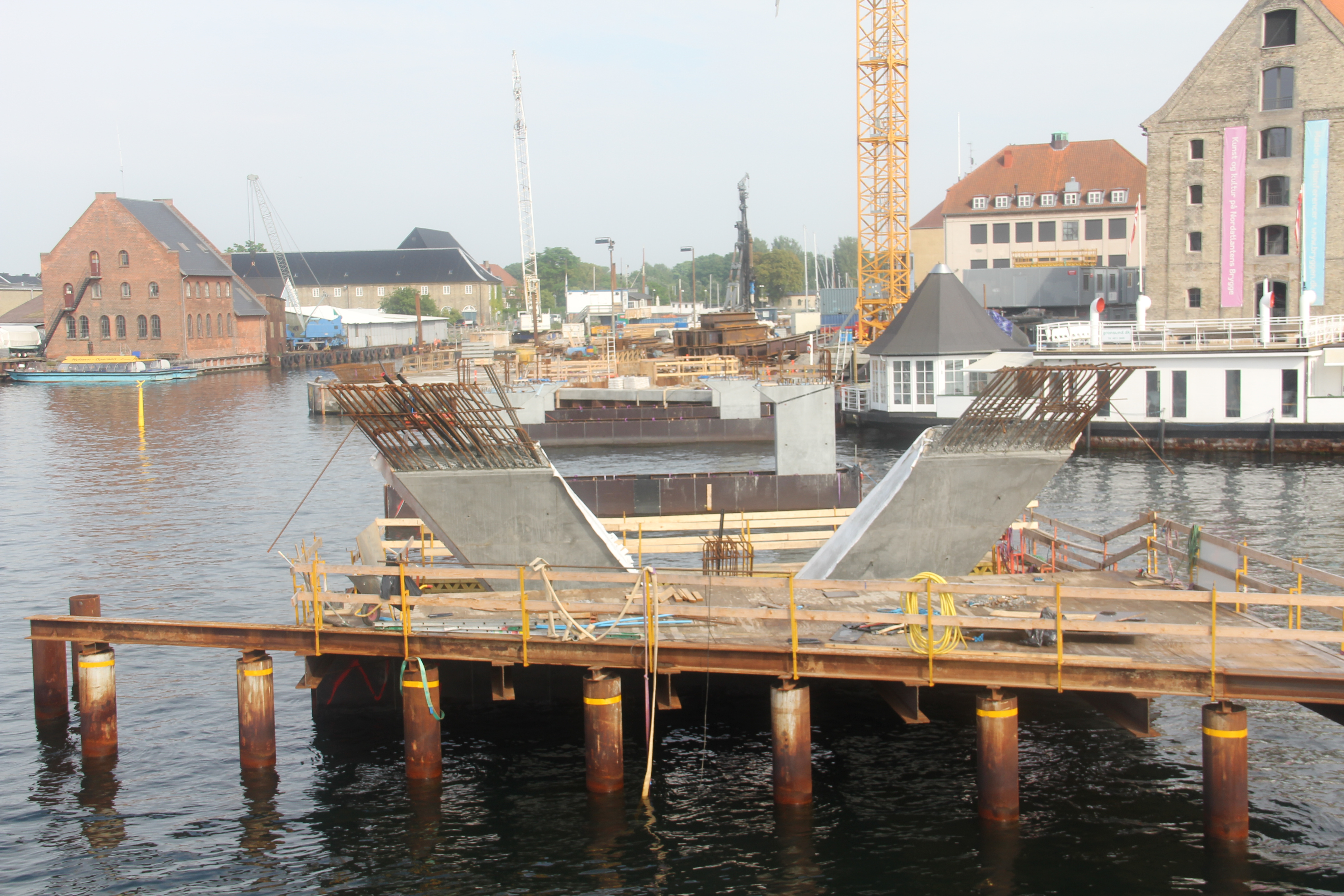 Construction of bridge Inderhavsnbroen, Copenhagen